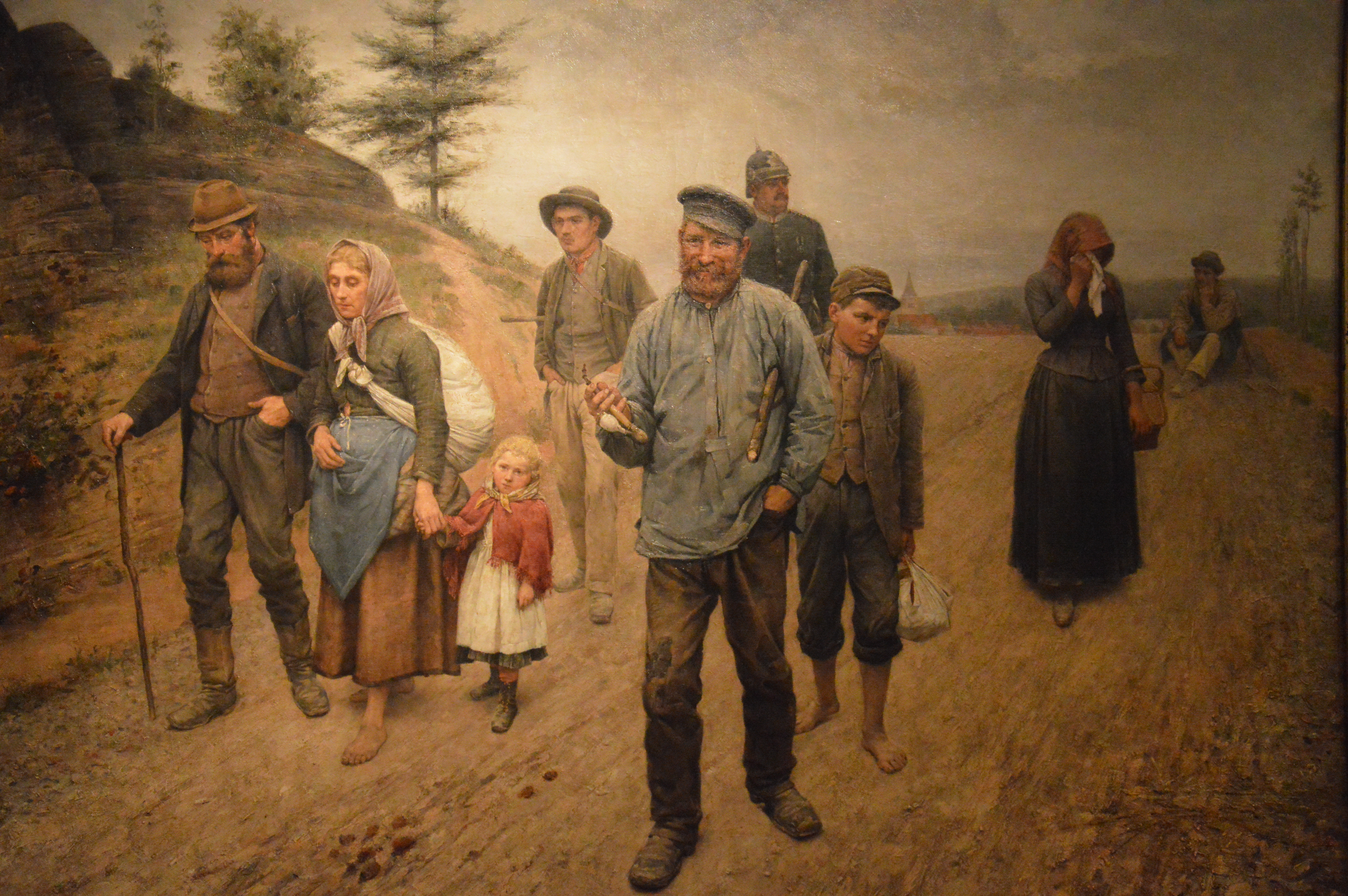 Josef Rolletschek's 1899 painting "Die Vertriebenen" (The displaced persons) in the Deutsches Historisches Museum, Berlin.